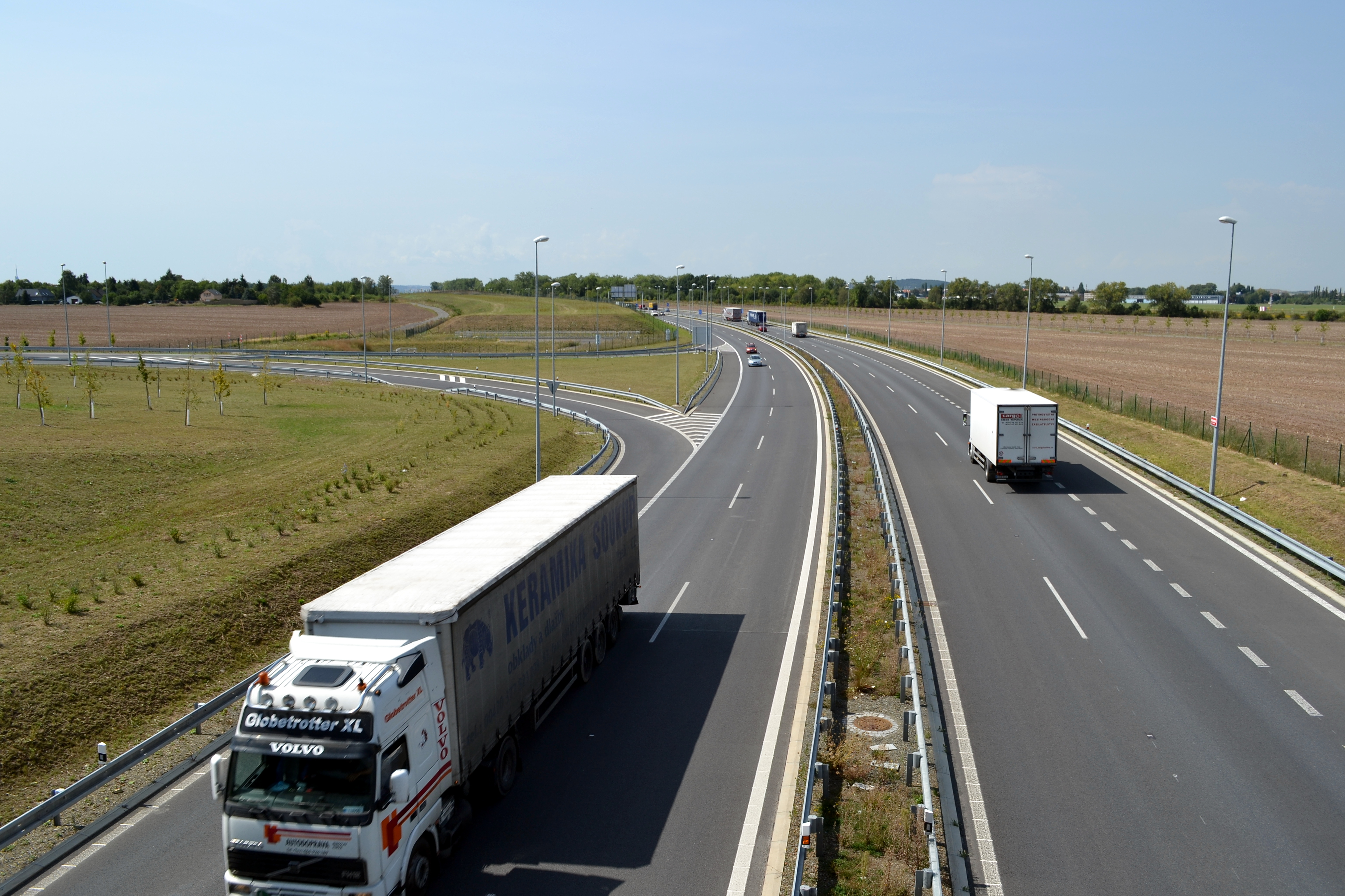 Satalice interchange of the expressway Vysočanská radiála, which connects R1 expressway (outer ring of Prague) and Kbelská street. Prague, Czech Republic.